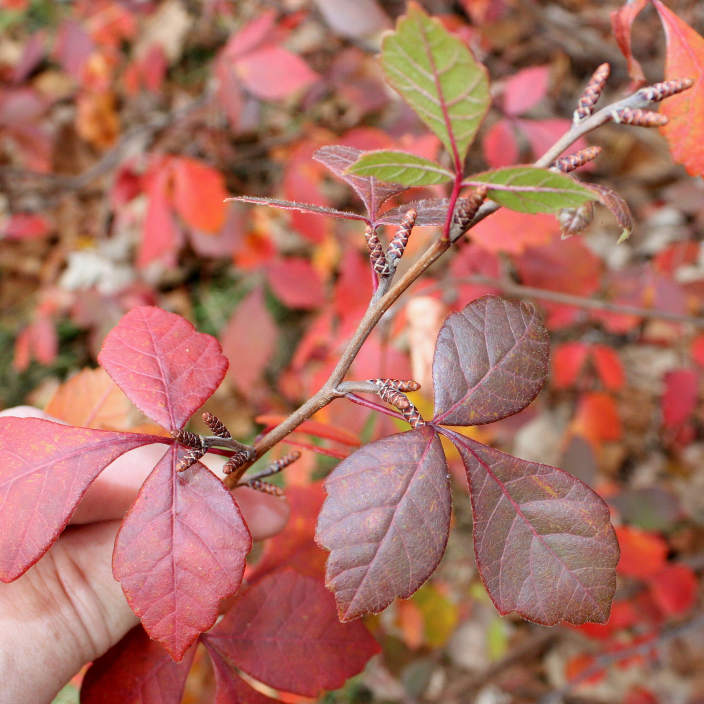 Fragrant sumac Rhus aromatica. Morton Arboretum accession 76-41-2. Foliage & catkins in autumn colors.